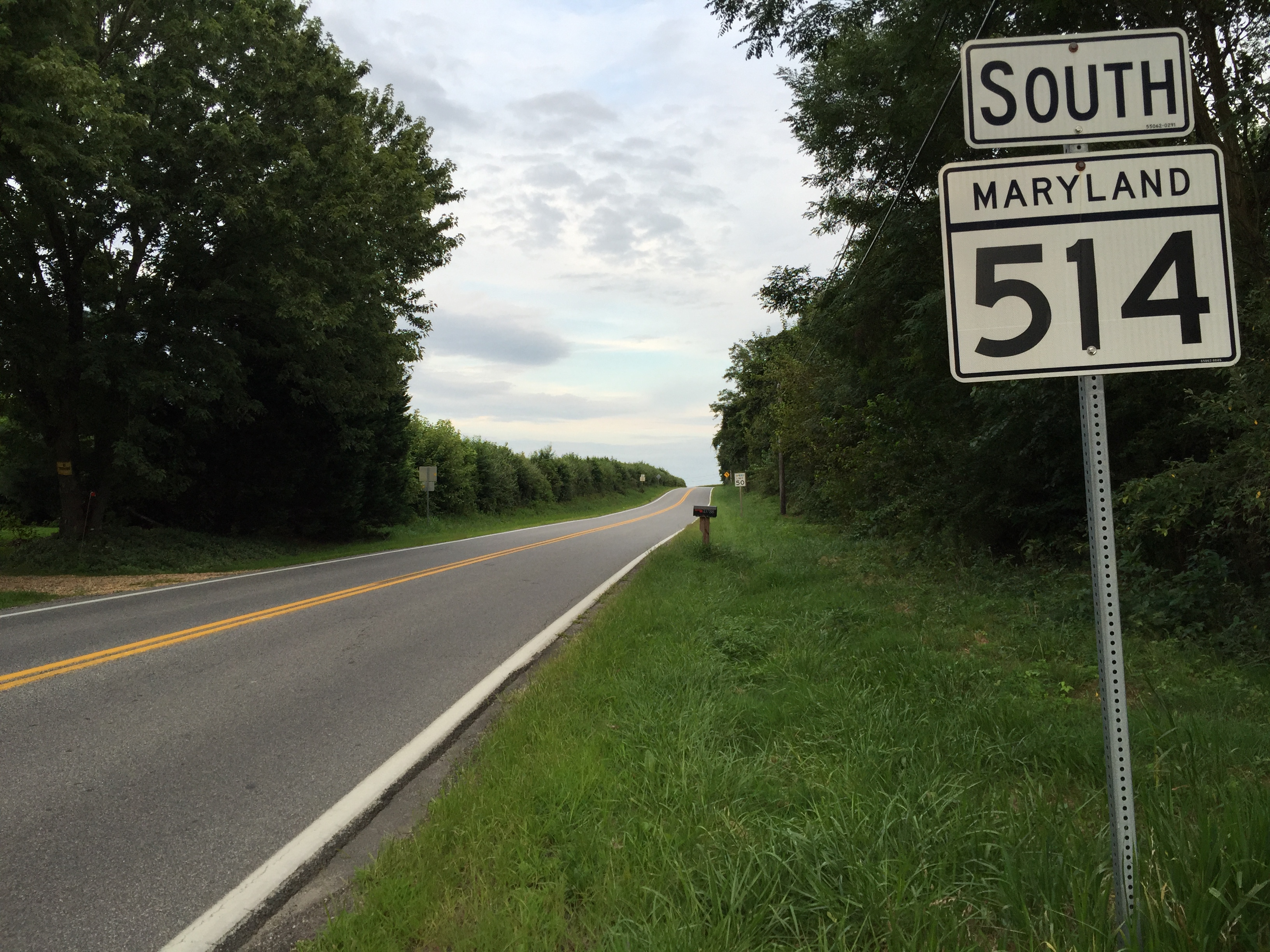 View south along Maryland State Route 514 (Melitota Road) at Maryland State Route 298 (Fairlee Road) in Melitota, Kent County, Maryland